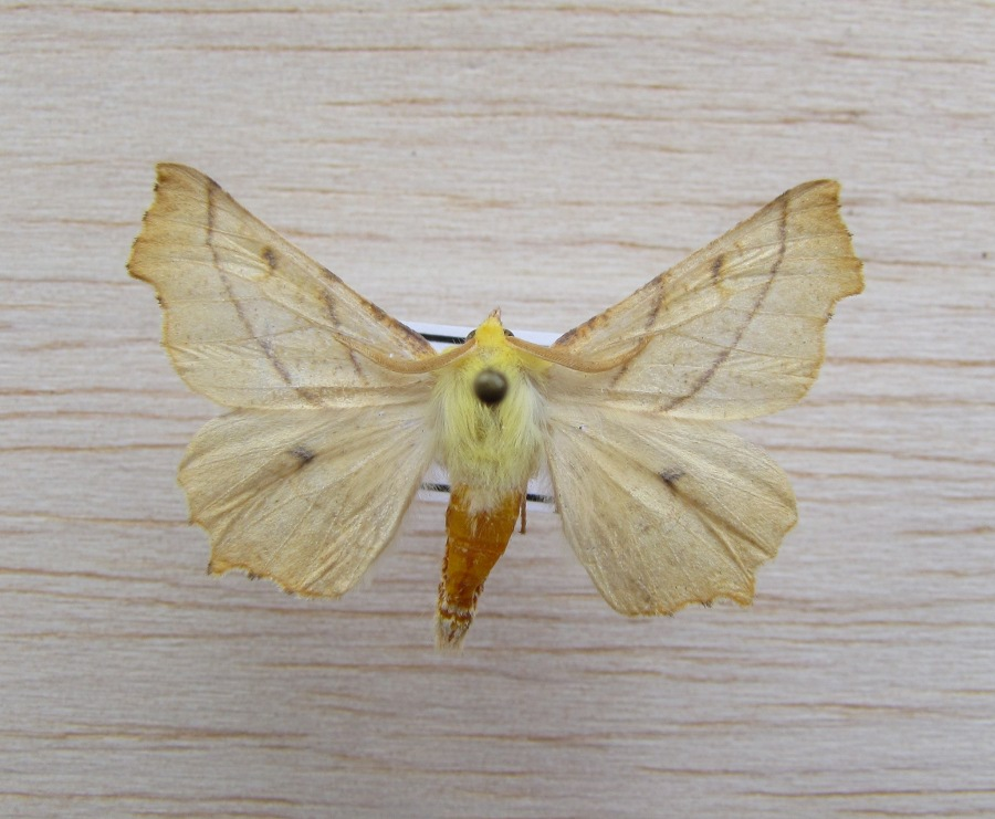 Mounted Ennomos alnarius specimen. Collected 20 August 2010 in Turku, Finland.